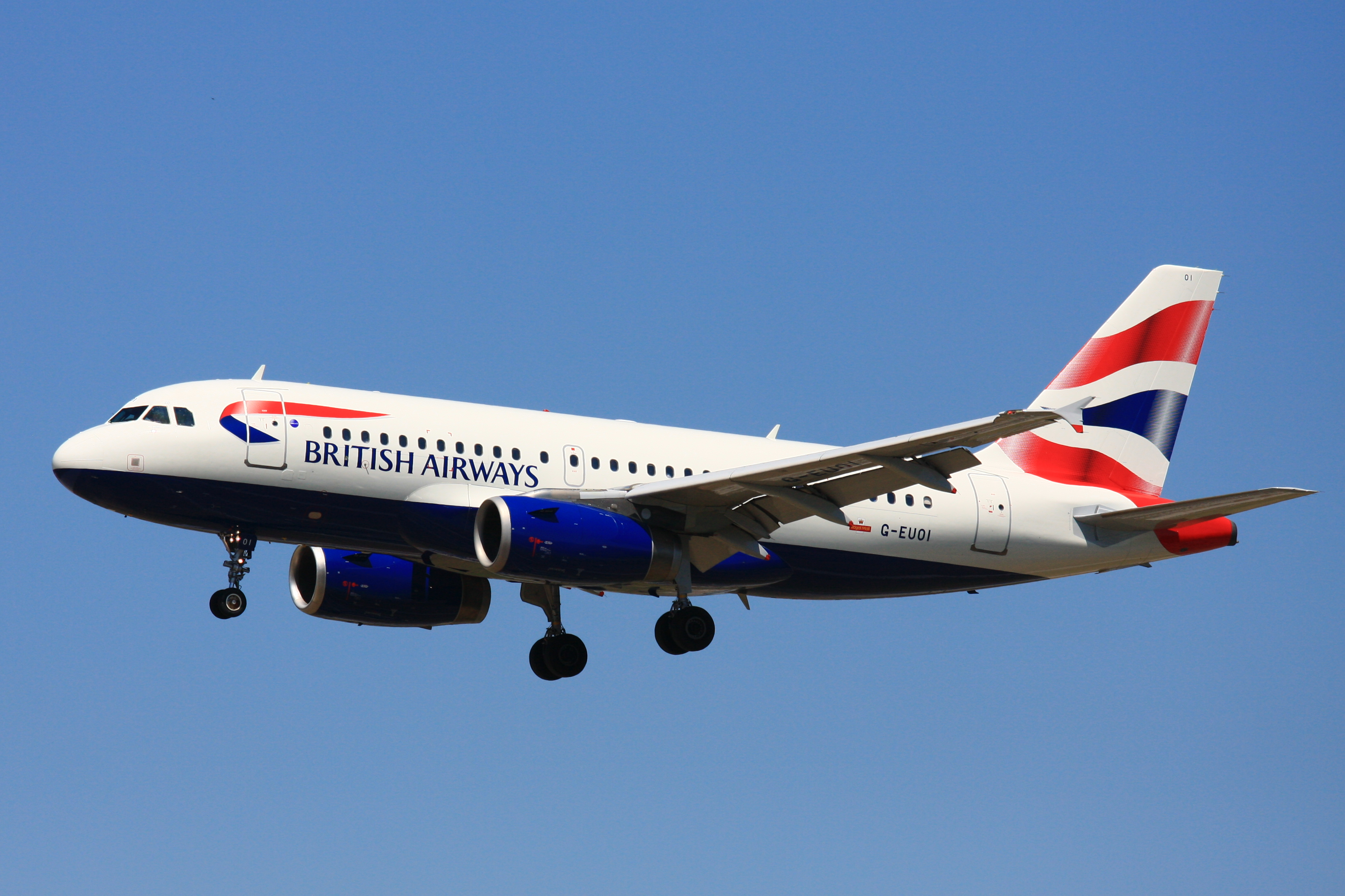 An Airbus A319 of British Airways landing at Frankfurt Airport